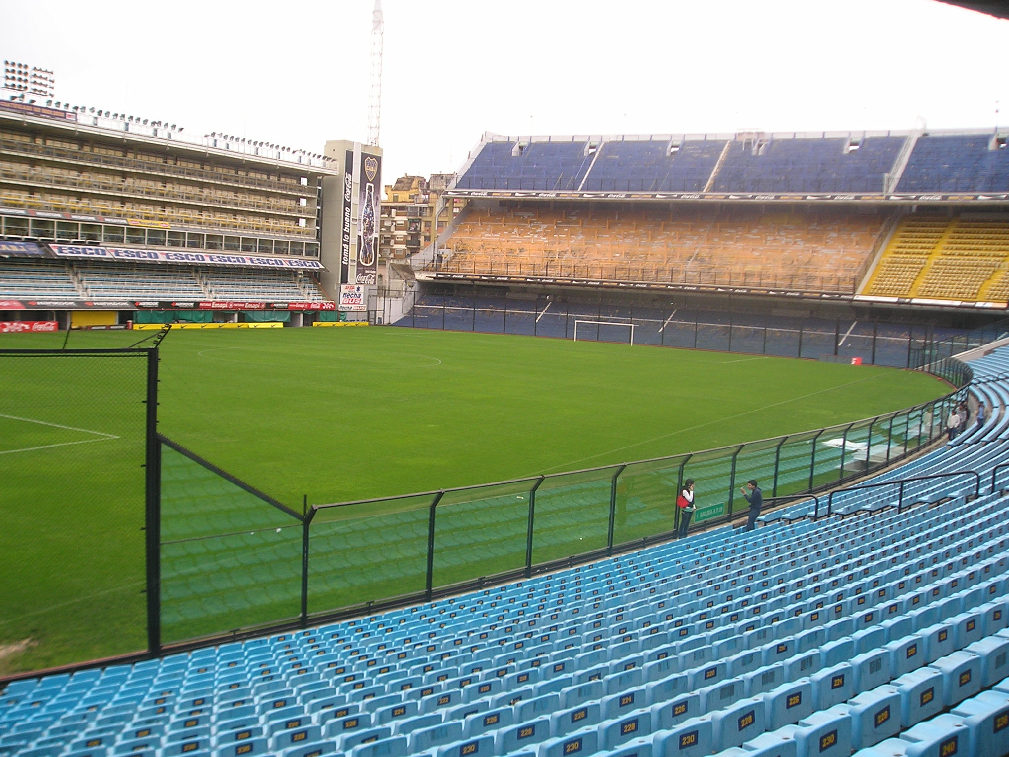 A view of the interior of the La Bombonera stadium in La Boca , Buenos Aires, Argentina